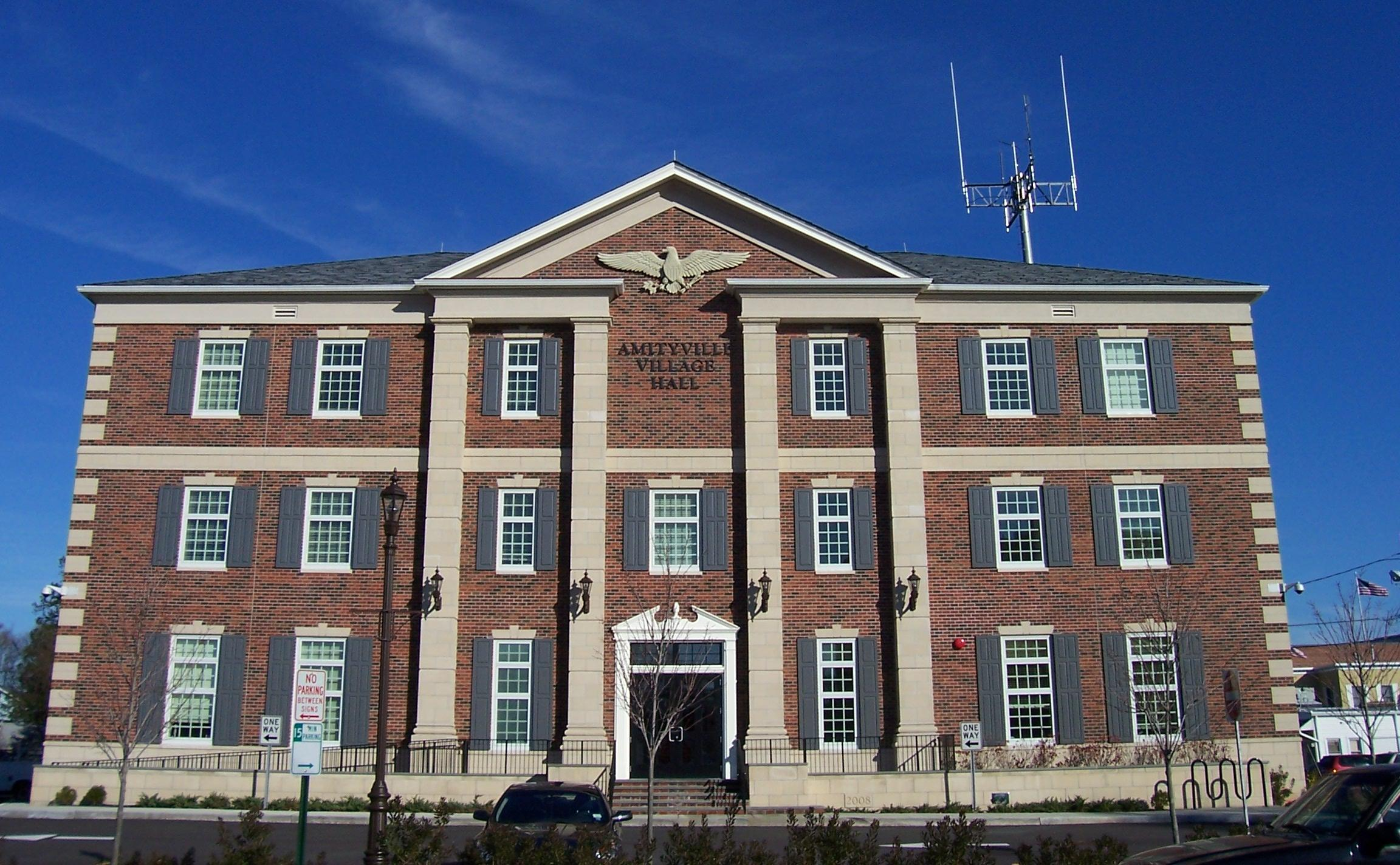 The new Amityville Village Hall, built in 2008, at least according to the cornerstone visible to the right of the door. Leadership in Energy and Environmental Design (LEED) certified. Sky cropped from image.